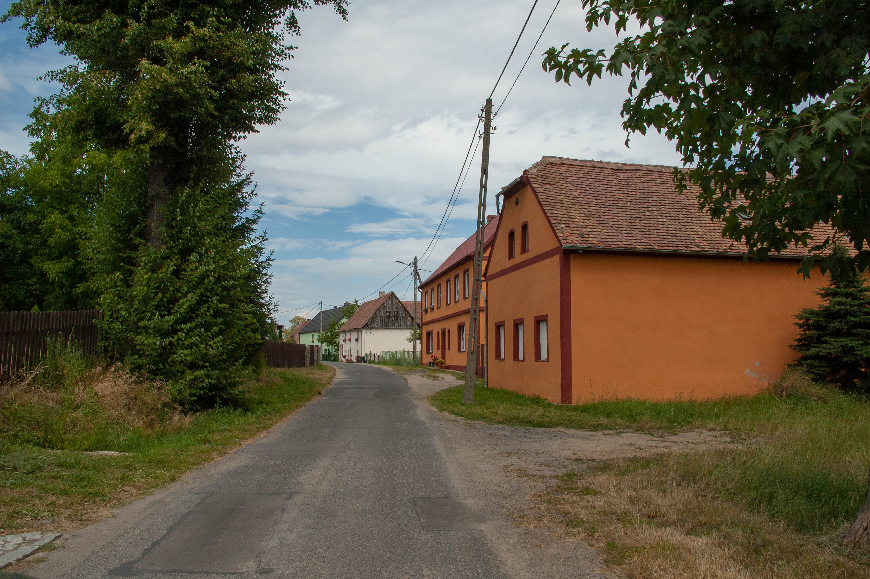 This photograph was created as a part of Wikiexpedition Lower Silesia, a project supported by Wikimedia Poland grant.